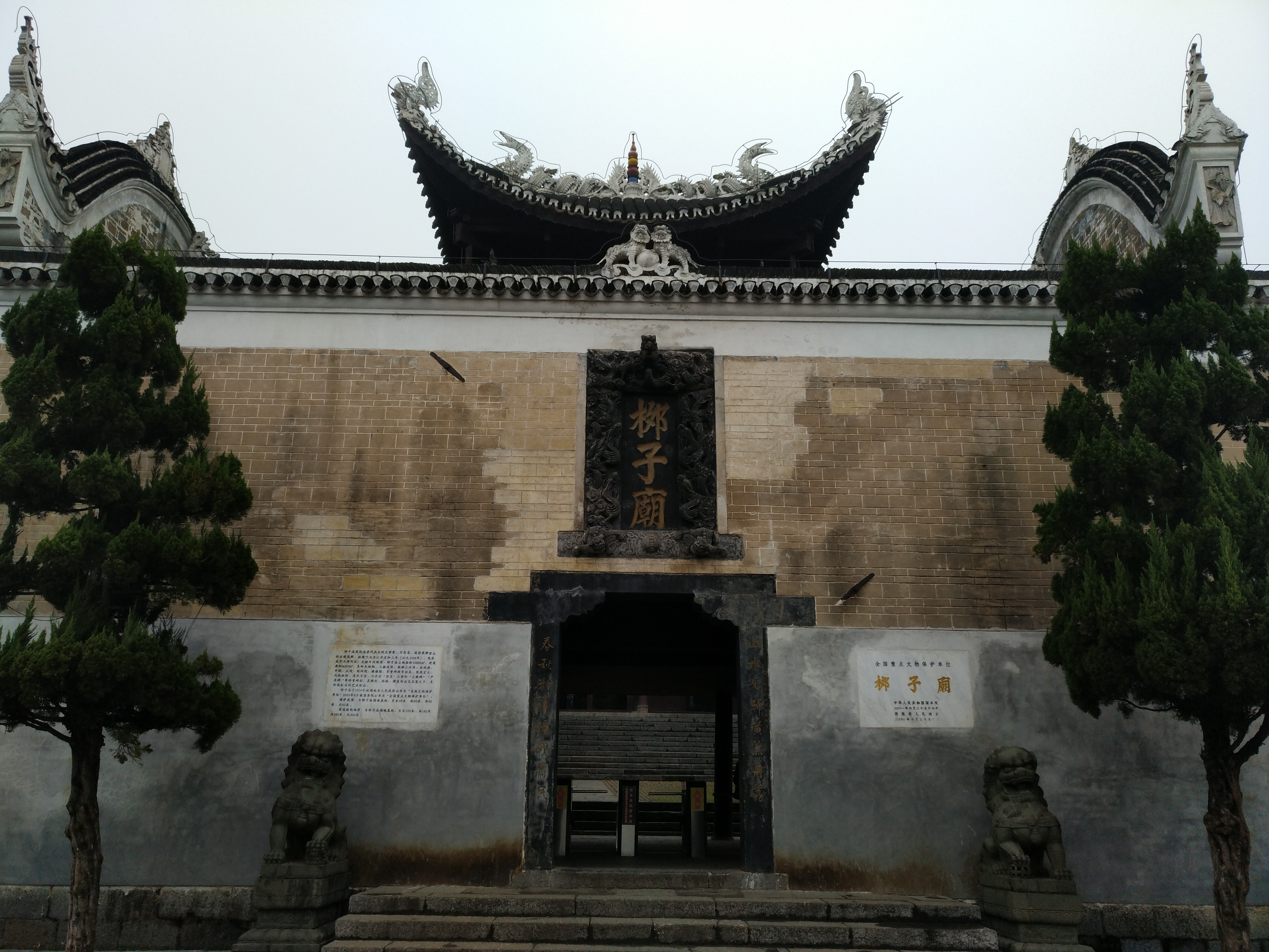 Gate of Liuzi Temple, in Lingling District of Yongzhou, Hunan, China. On both sides of the main entrance there are two Chinese guardian lions.